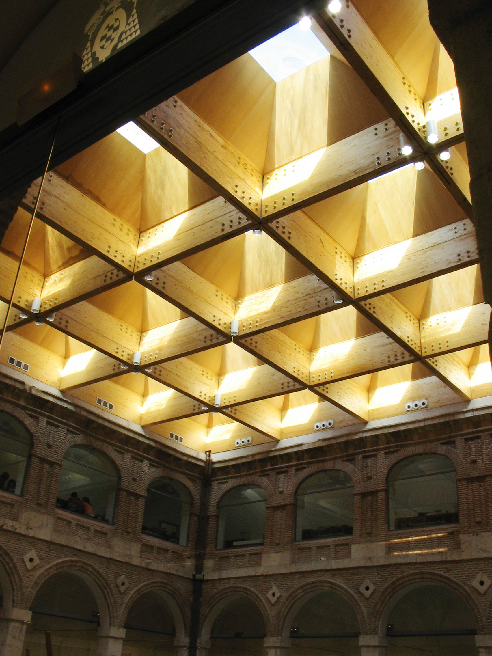 Courtyard at School of Architecture of the University of Alcalá de Henares (Community of Madrid, Spain).